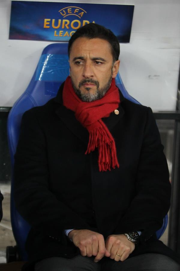 Vítor Manuel de Oliveira Lopes Pereira